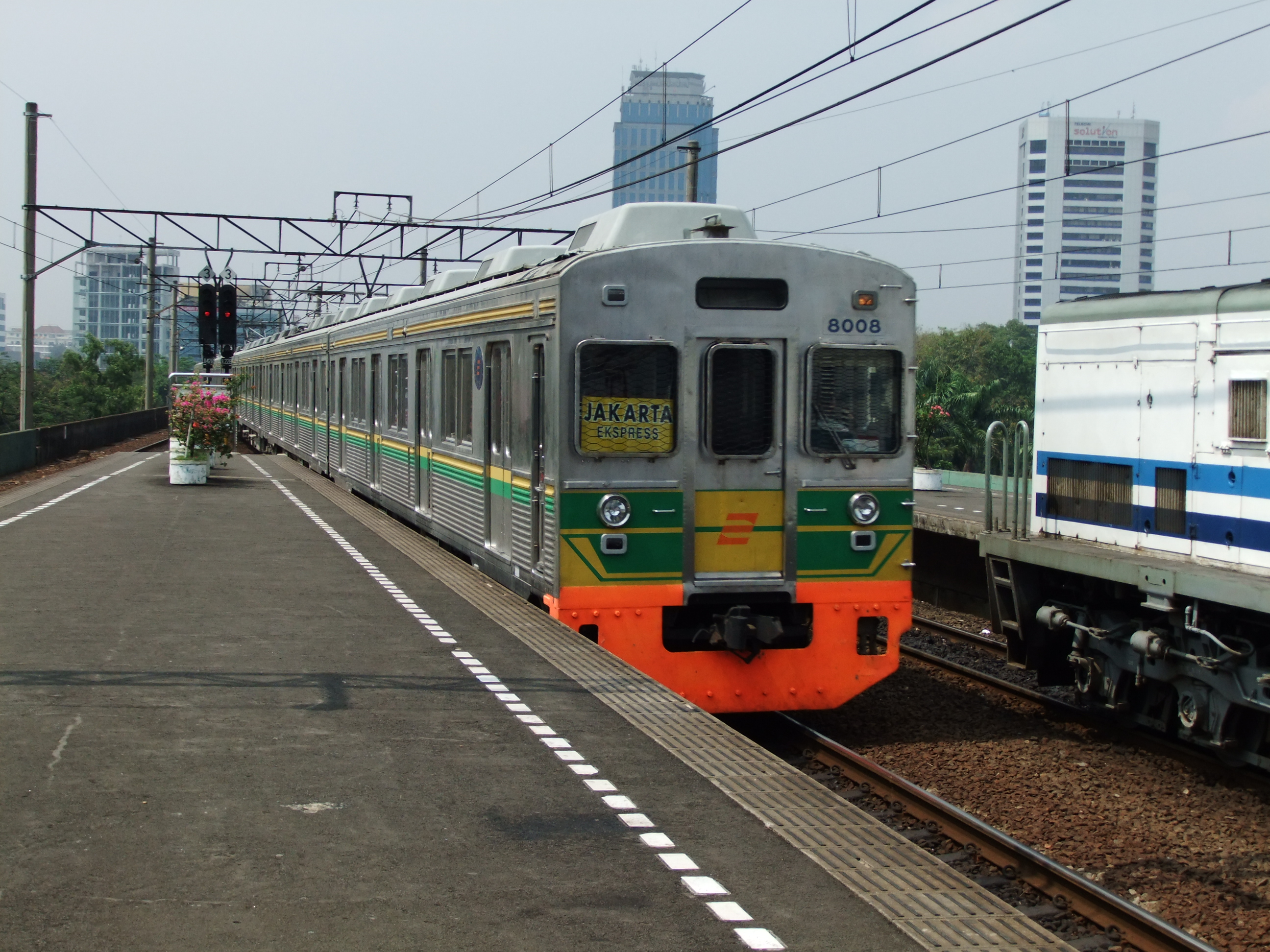 Bekasi-Jakarta Express